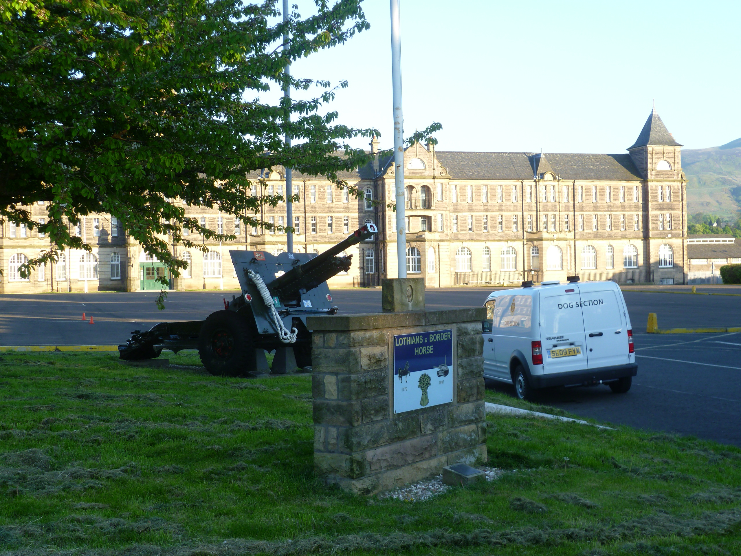 Redford Barracks, Colinton Road Edinburgh